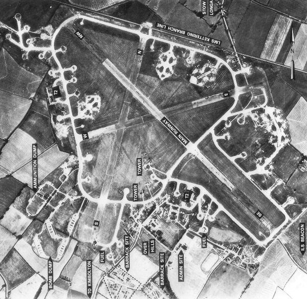 Aerial photograph of Kimbolton Airfield, England.